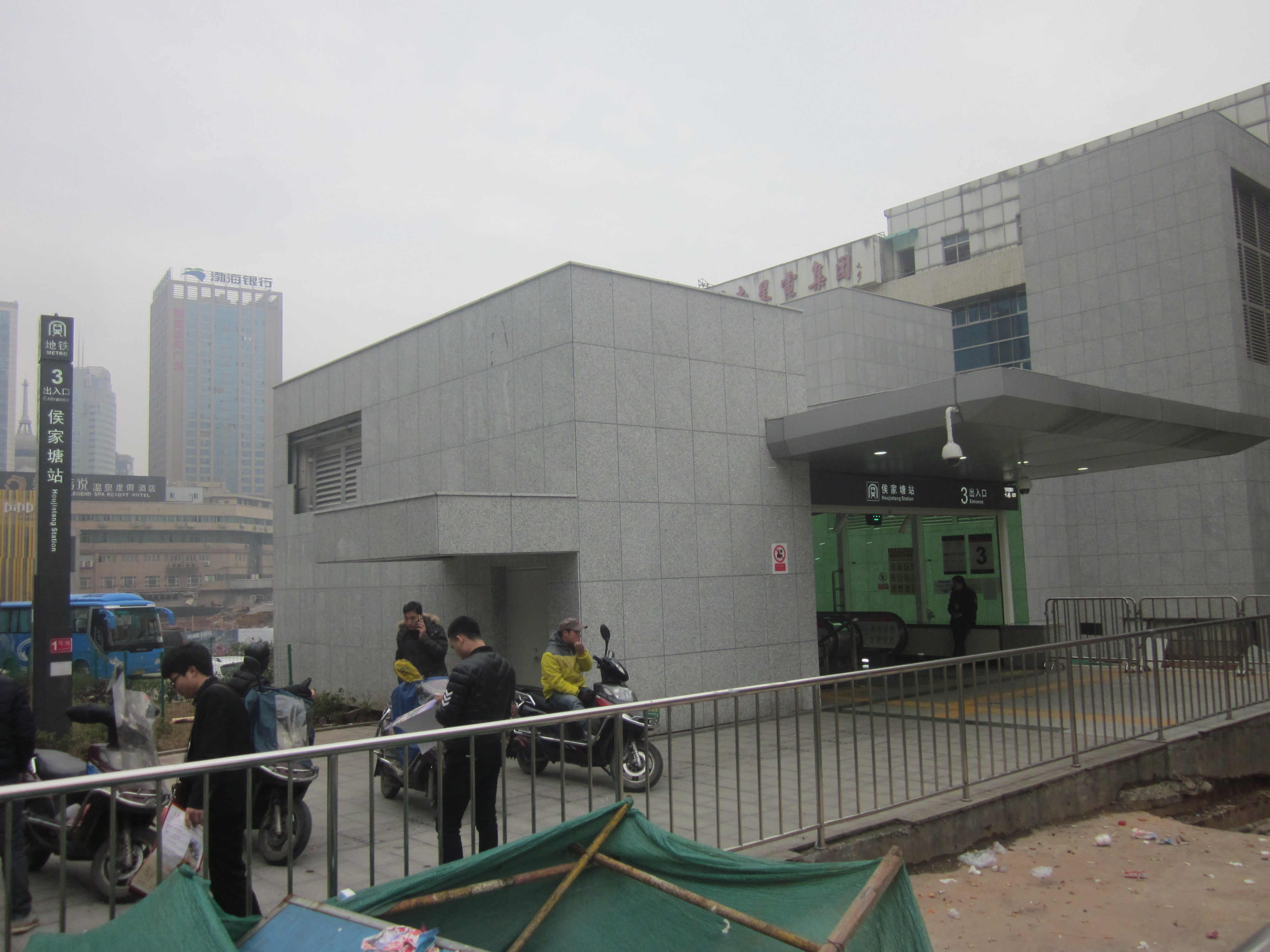 Entrance No. 3 of Houjiatang Station.